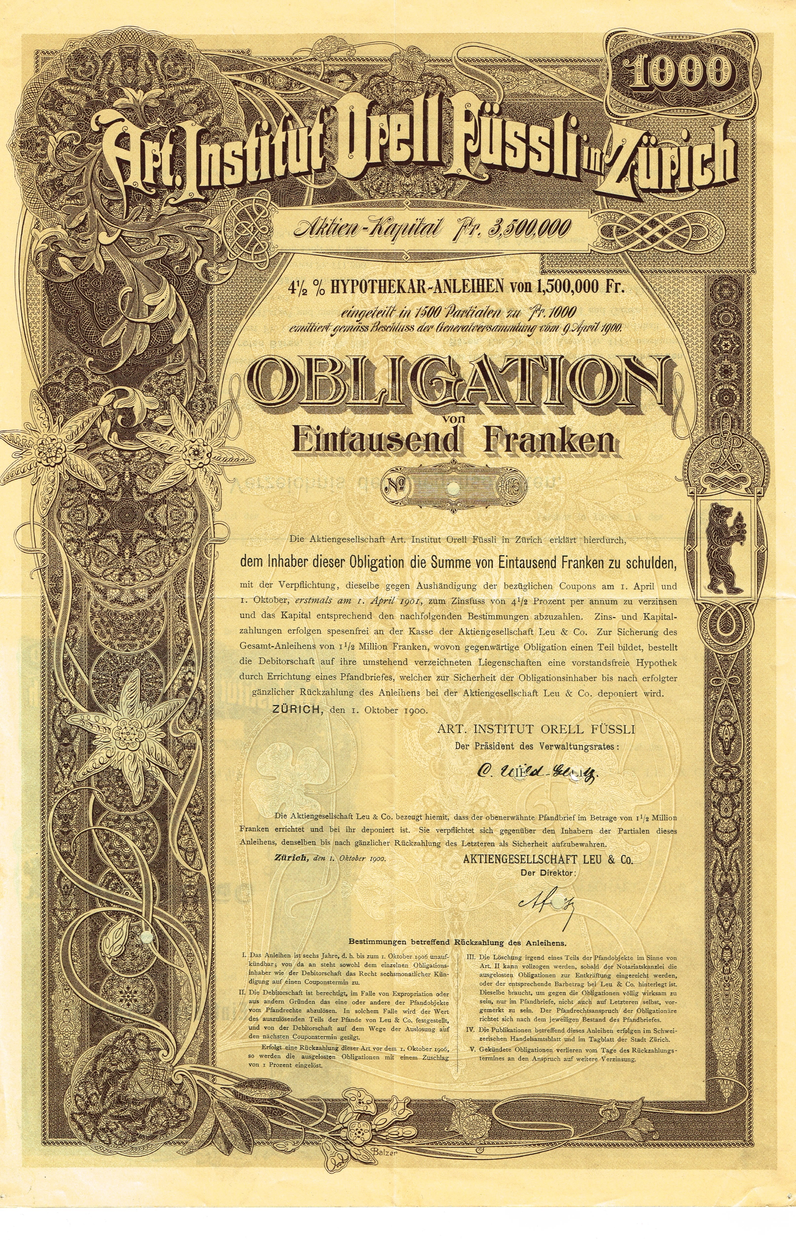 Bond of the Art. Institut Orell Fuessli, issued 1. October 1900